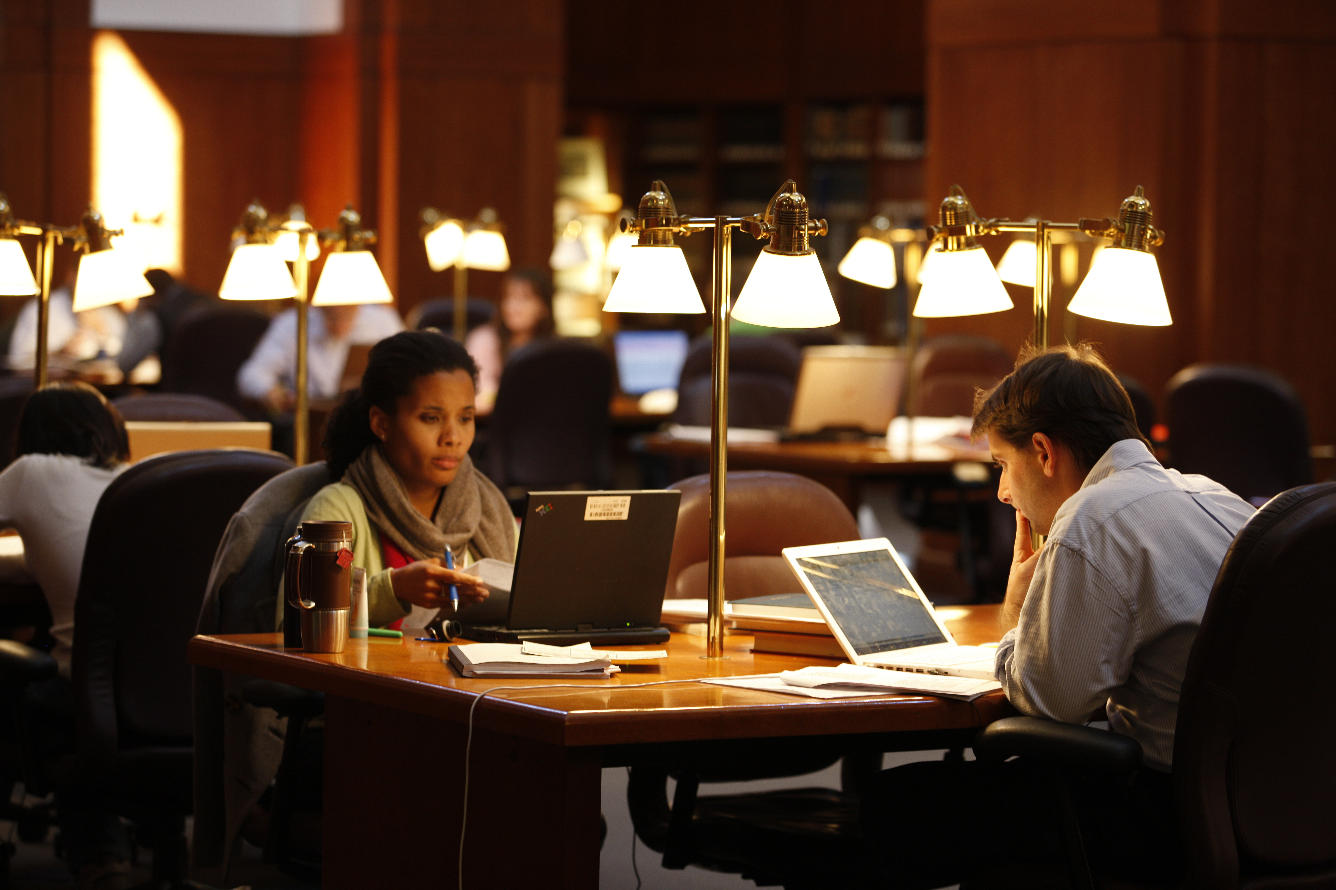 University of Virginia School of Law, Library